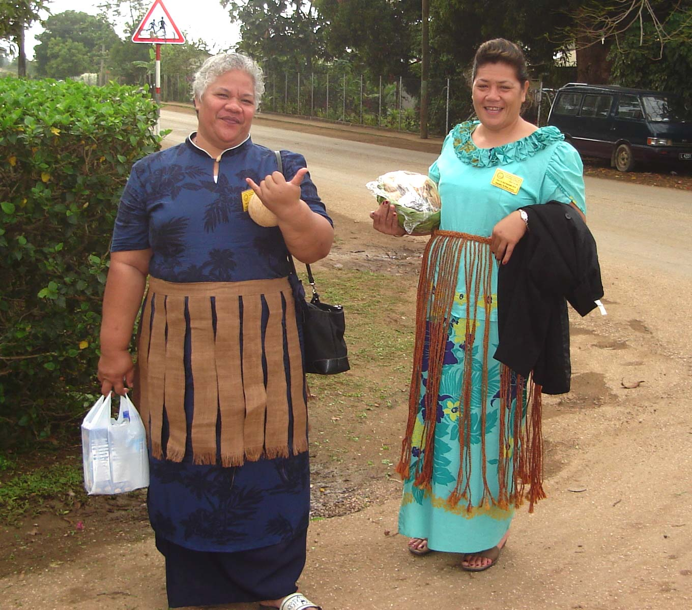 Two Tongan ladies dressed on their best with a kiekie